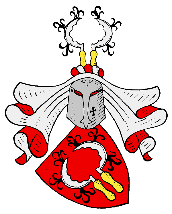 Coat of arms of the Lüttichau family